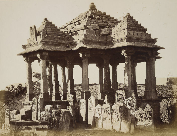 Photograph of a group of paliyas (memorial stones), with a tiered pavilion (chattri) behind at Than in Gujarat, taken by James Burgess around 1874. In the 'Report on the Antiquities of Kathiawad and Kachh of 1874-75', Burgess wrote, "Throughout the country and in Kachh, the custom long prevailed of erecting a stone called a Paliya to the memory of those who died a violent death, but in more recent times it seems to have become common also to those who died from natural causes. Like grave-stones in other countries they are of very varied workmanship, from the plain stone with a rude symbol above and the name, date, and mode of death...to the moulded stone surmounted by a figure of the deceased mounted on a horse or camel...These paliyas are sometimes erected on raised on raised platforms, and in rarer cases they are covered by a pavilion or chattri."